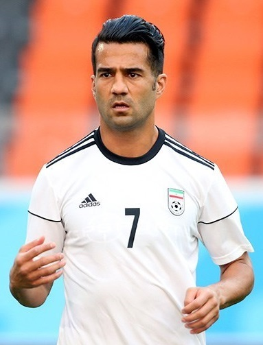 Masoud Shojaei